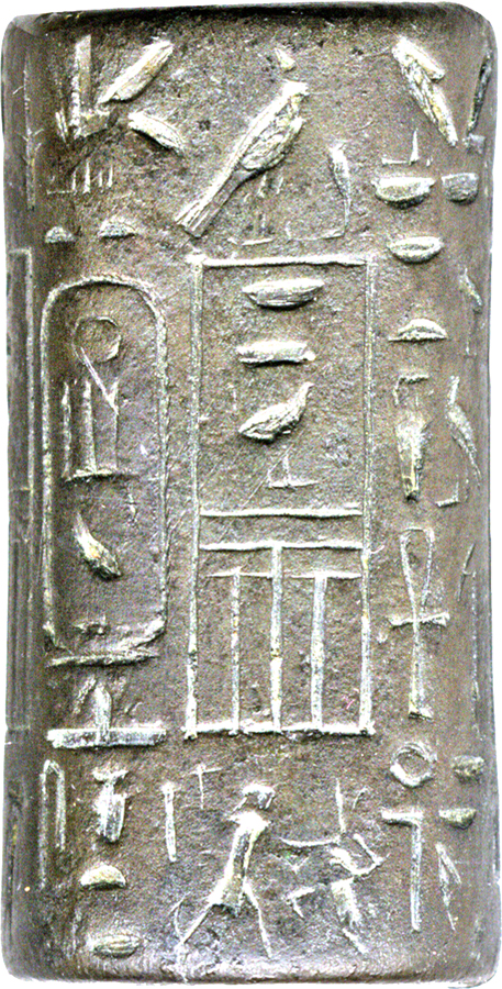 Functional cylinder seals, like this example made for King Sahure, contain names and titles.